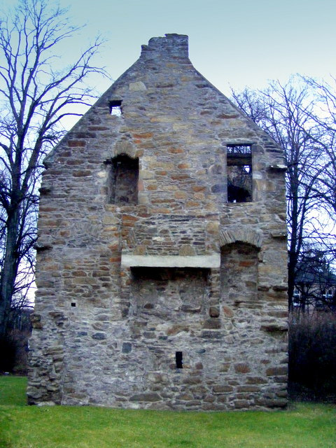 Milton Tower, Keith, Banffshire